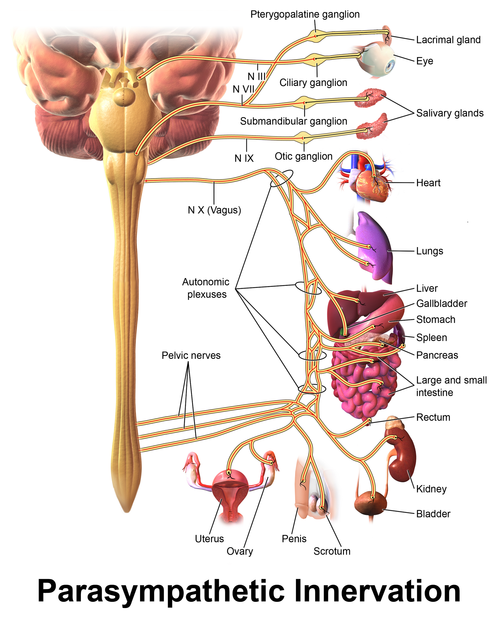 Parasympathetic Innervation. See a full animation of this medical topic.